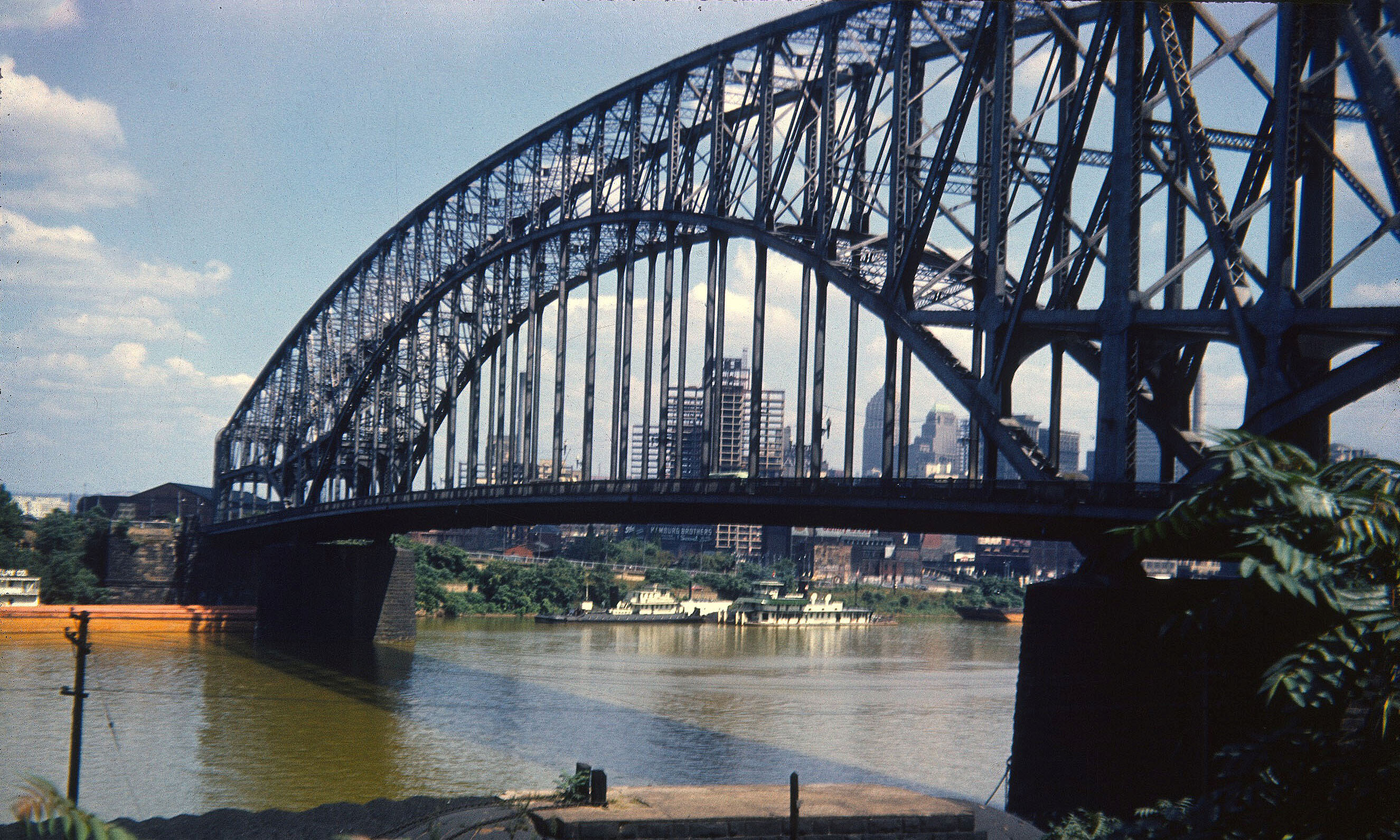 The Point Bridge II in Pittsburgh shown in 1951 looking north across the Monongahela River. In the background you can see the Gateway Center buildings under construction. Photograph taken by John V. Mullen (1898-1966)